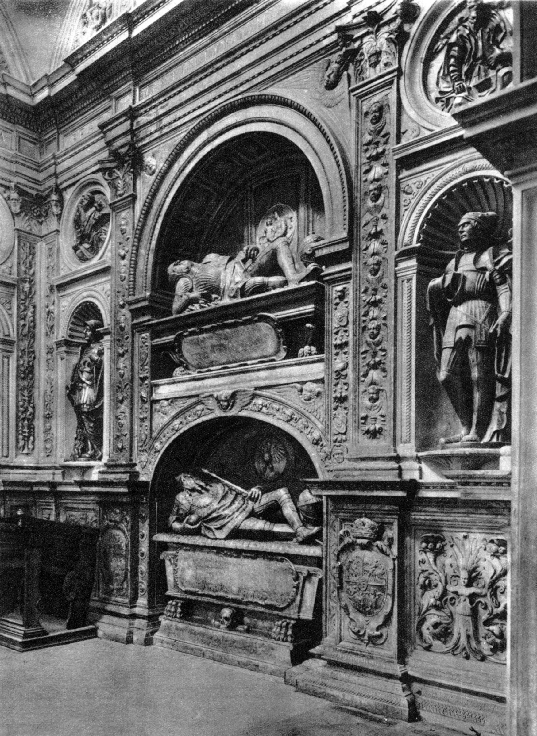 Interior of renaissance Sigismund Chapel.